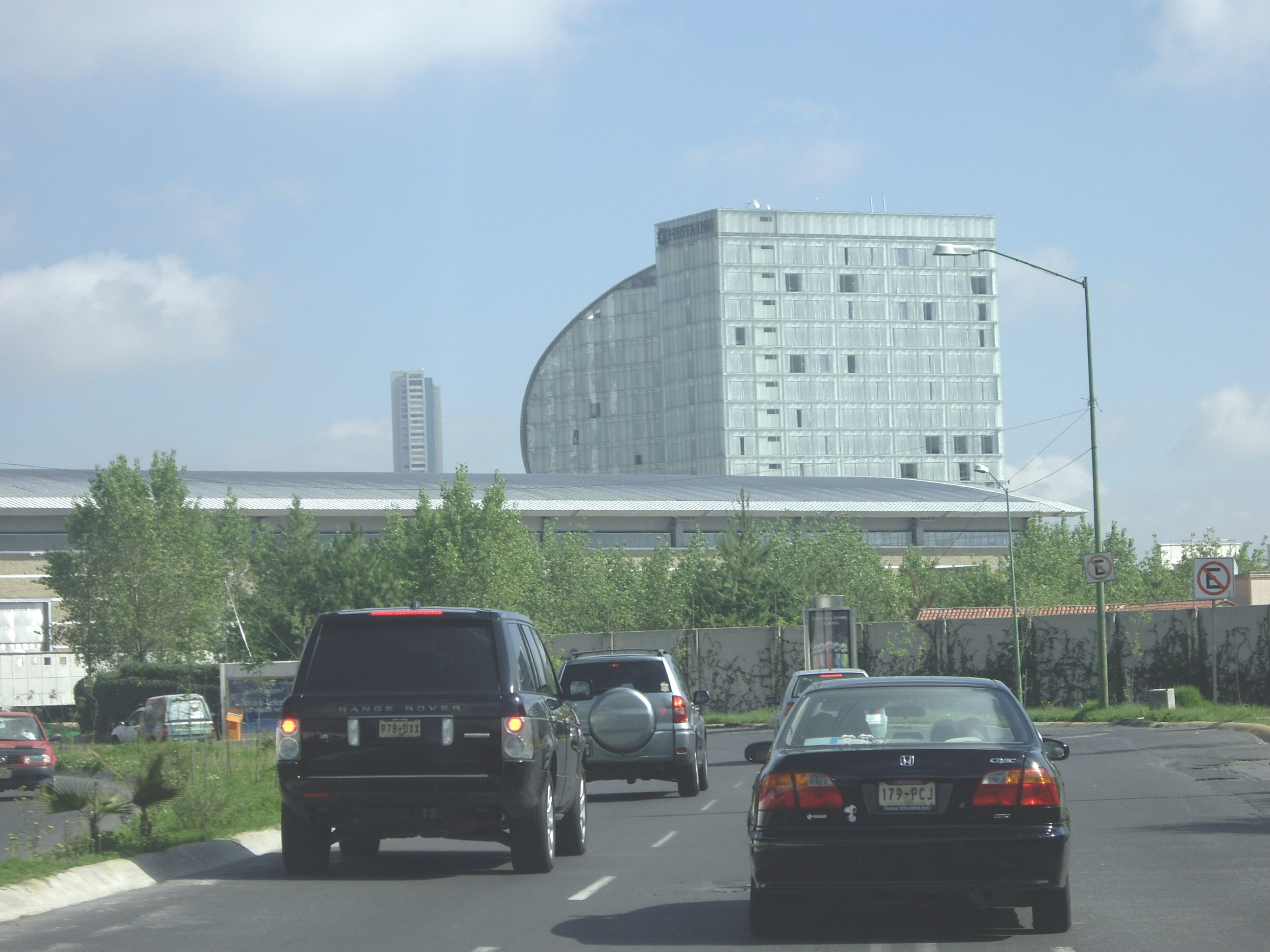 Range Rover, Honda Civic, Toyota Rav4 and VW Golf over Carlos Lazo Avenue, Santa Fe, Mexico City.